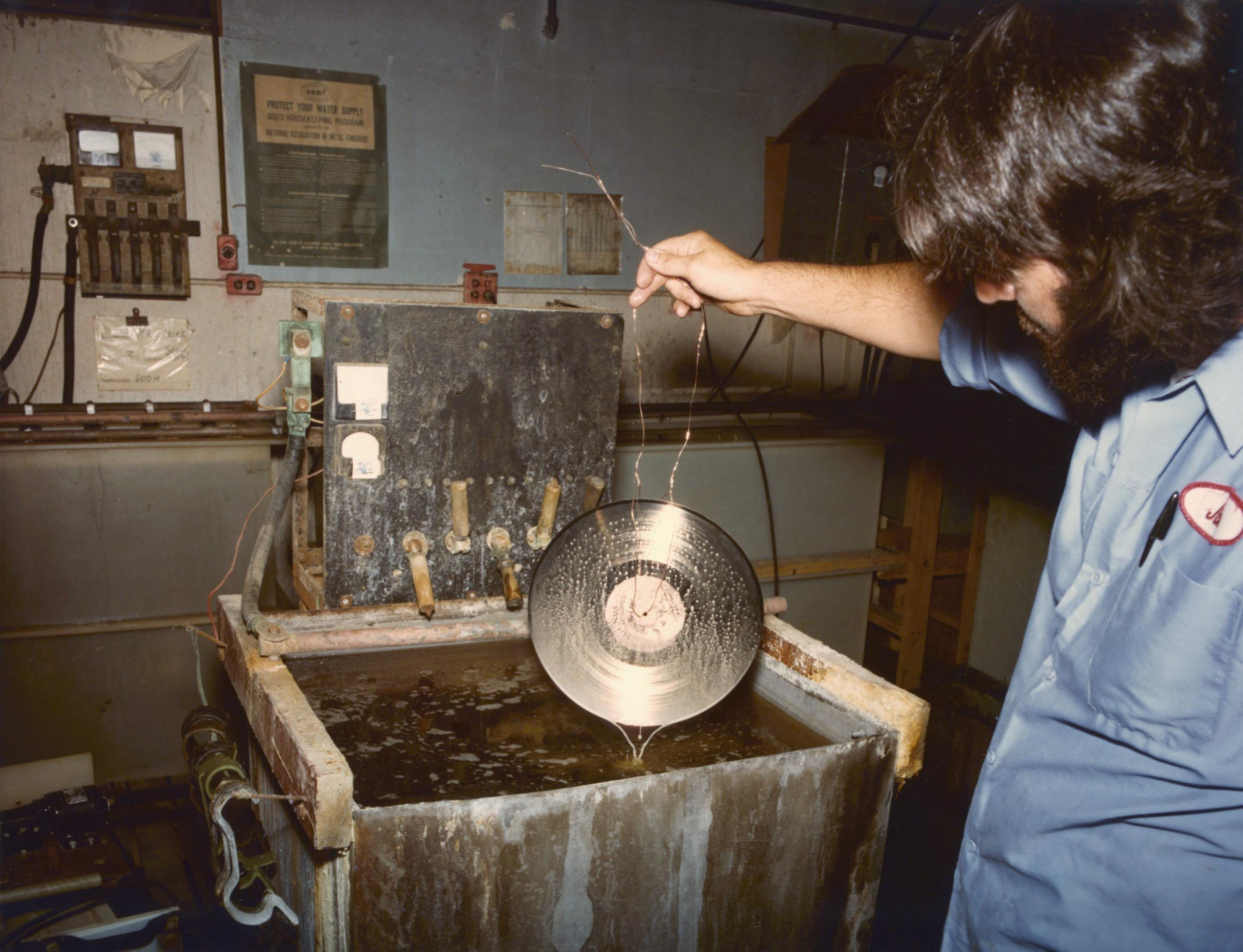 gold plating the record placed aboard the Voyager probe at the James Lee Record Processing Company in Gardena, California.